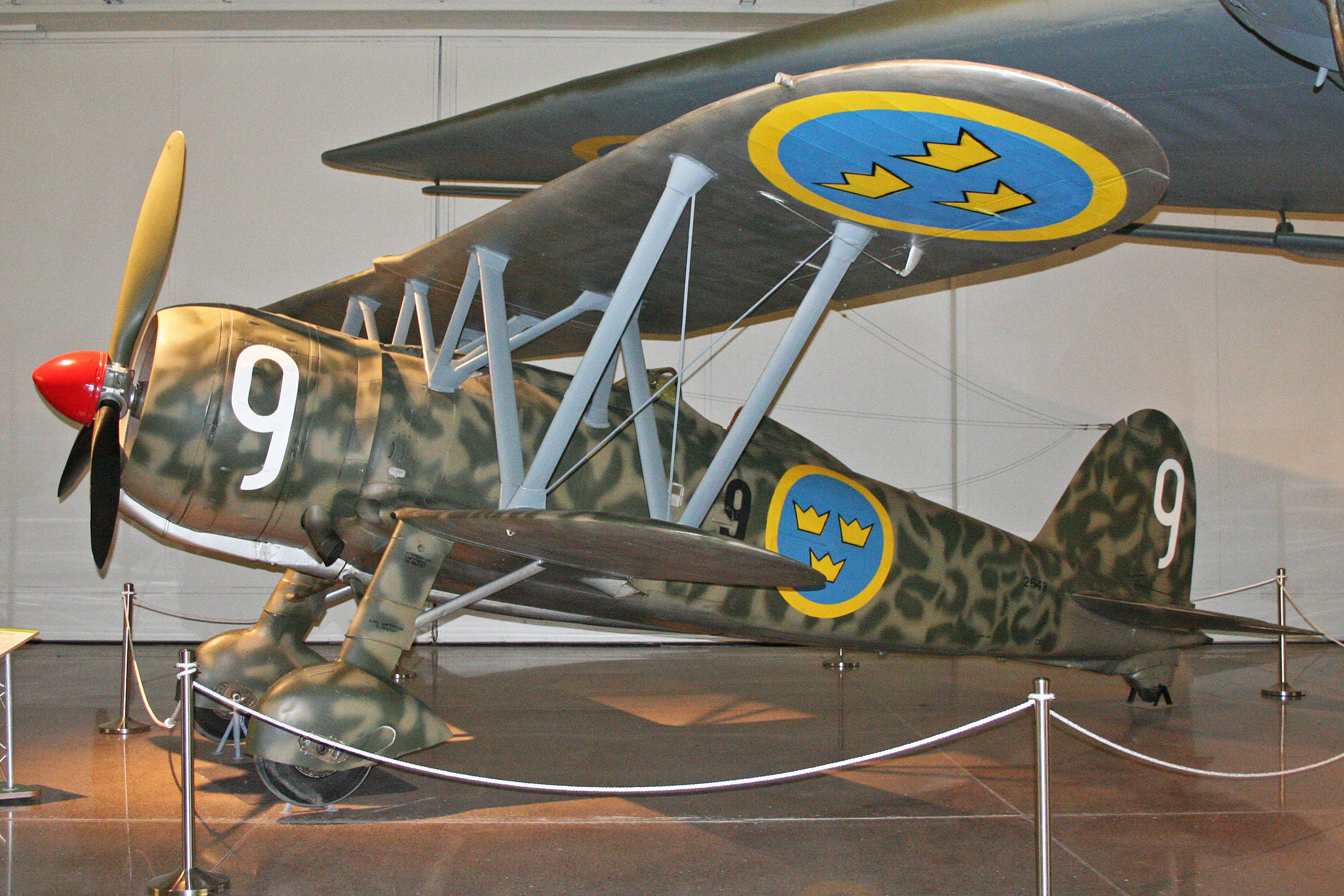 Built in 1941, this 'Falco' carries F9 unit markings. msn 921. Flyvapenmuseum, Malmen, Sweden. 04-6-2012